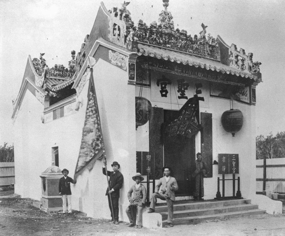 Photographer: Unidentified Location: Breakfast Creek, Queensland Description: Group of people outside the Chinese Buddhist temple at Breakfast Creek. One man holds a banner and another man in traditional Chinese dress stands in the doorway of the temple. The temple first opened in 1884 and was made by artisans from mainland China who also brought the materials for building (Information taken from: D. Hacker, ed., A look back in time : a history of Bowen Hills-Newstead & The Creek, 1996). View this image at the State Library of Queensland: Information about State Library of Queensland’s collection